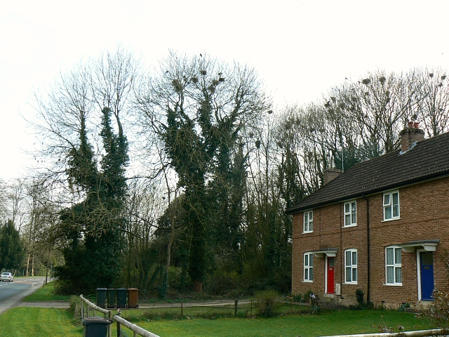 Houses, Enham Alamein The village lies just north of the Hampshire town of Andover in the direction of this south-facing view. The houses on the right may well have been built by the local authority of their day. The trees behind are home to a small but noisy rookery.